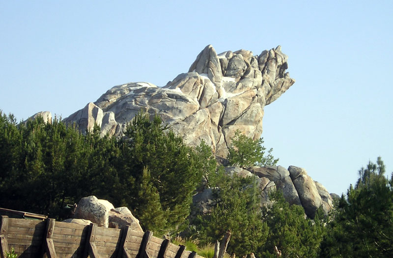 Grizzly Peak by Ellen Levy Finch Feb 2006